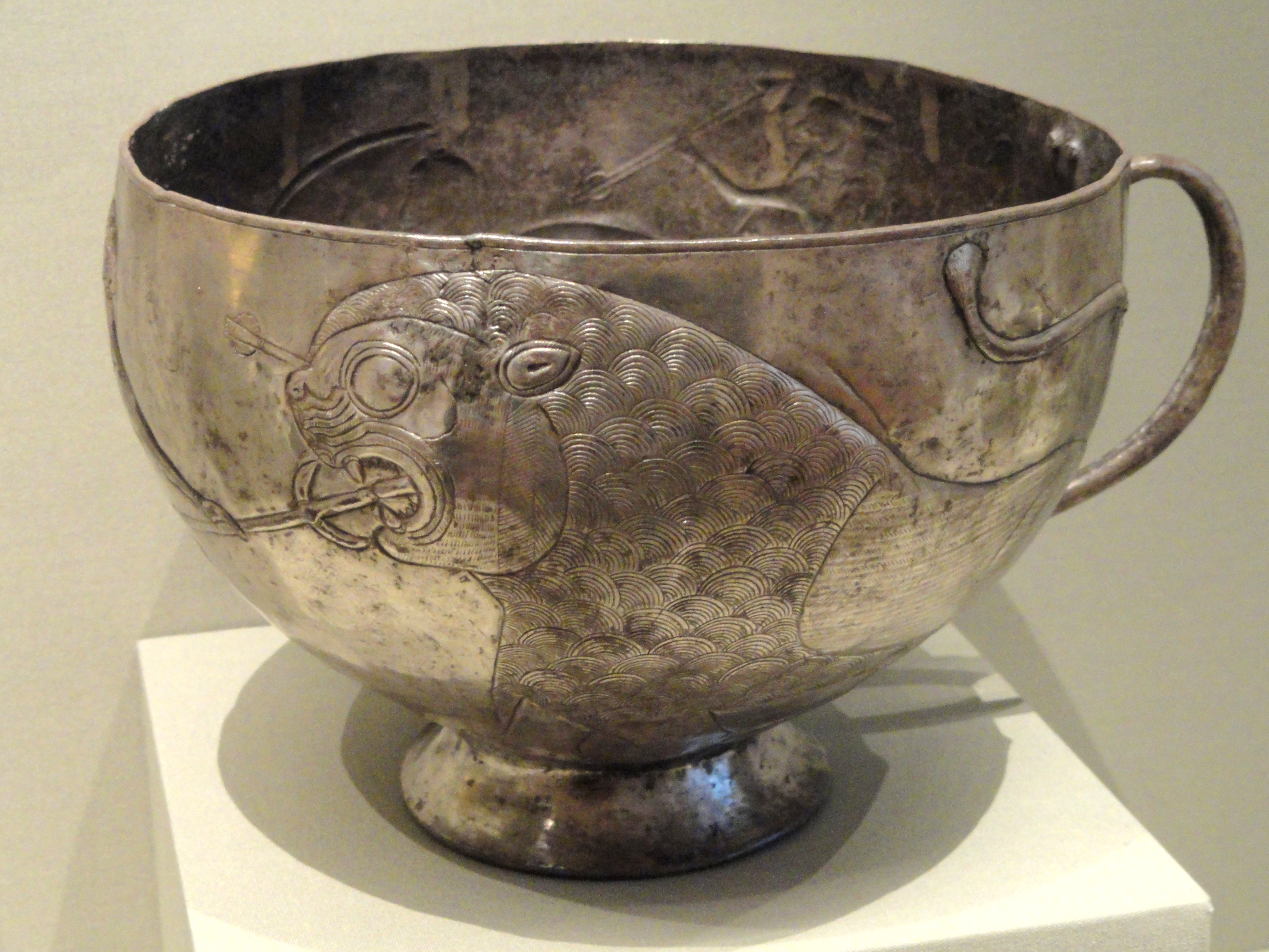 Exhibit in the Cleveland Museum of Art, Cleveland, Ohio, USA. This artwork is old enough so that it is in the public domain.